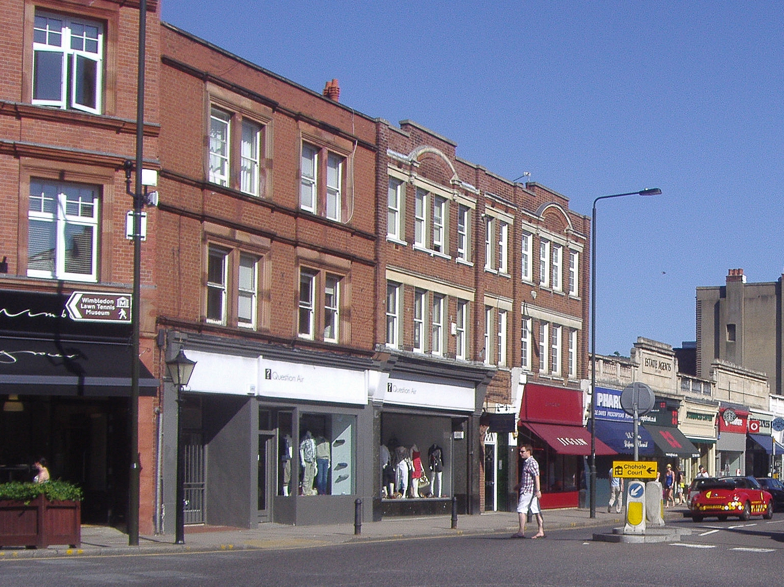 Wimbledon High Street